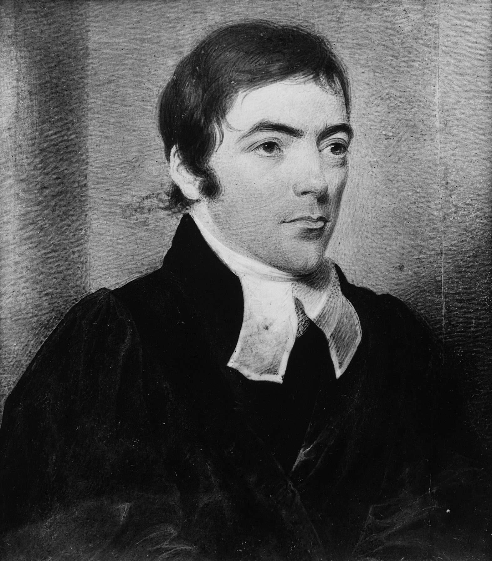 Rev. Christopher Edwards Gadsden Artist: Charles Fraser (1782–1860) Date: 1819 Medium: Watercolor on ivory Dimensions: 4 5/16 x 3 1/2 in. (11 x 8.9 cm) Classification: Paintings Credit Line: The Alfred N. Punnett Endowment Fund, 1928 The sitter (1785-1852), later bishop of Charleston, was a rector at the time he sat for Fraser.